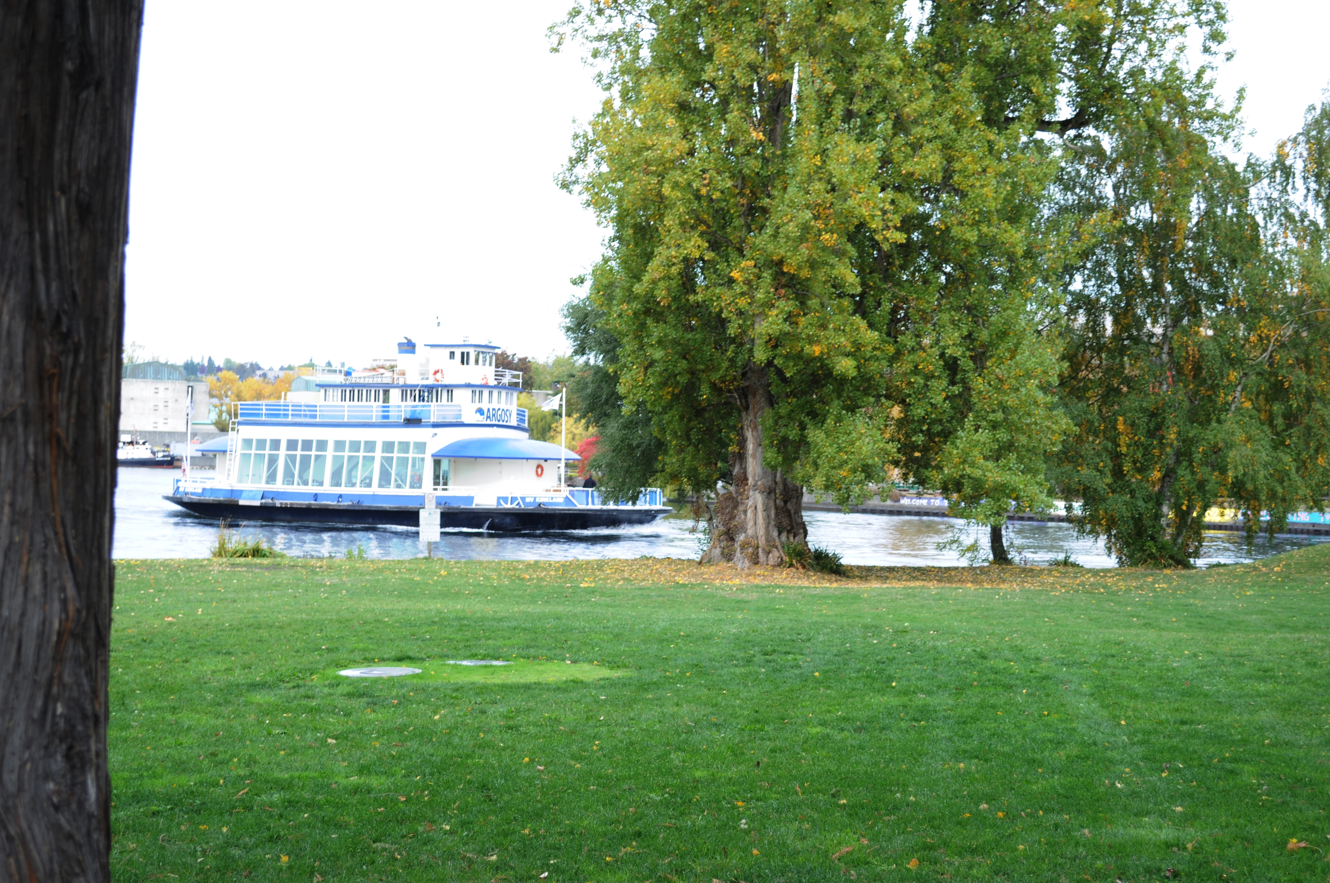 The MV Kirkland (previously Tourist II, listed on the National Register of Historic Places) seen from West Montlake Park, Seattle, Washington. Not a great photo: I happened to be there for other reasons, noticed this historic boat going (rapidly) by, and snapped what was almost a "hipshot" of it.